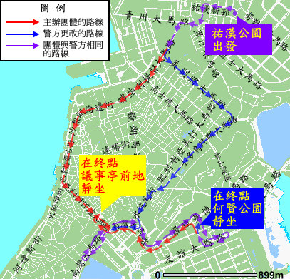 The routes for Macau May Day Parade in 2007. Reference: According to the news from Macaodaily in 17th & 28th April, 2007.